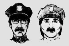 Sketches of the suspects involved in the Isabella Stewart Gardner Museum Theft provided by the FBI